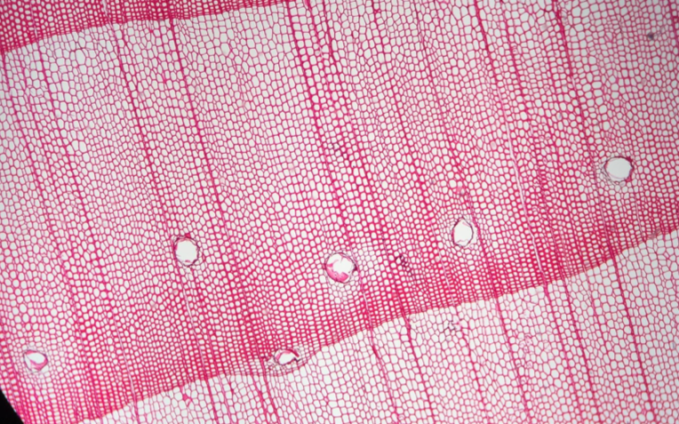 Resin canals in pine tree viewed under a microscope